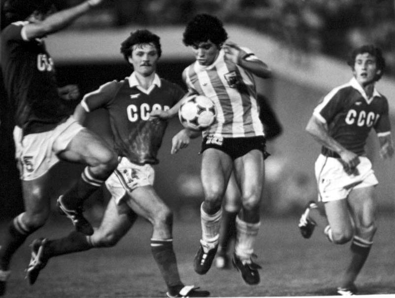 Diego Maradona playing with the Argentina u-20 national team v. USSR.